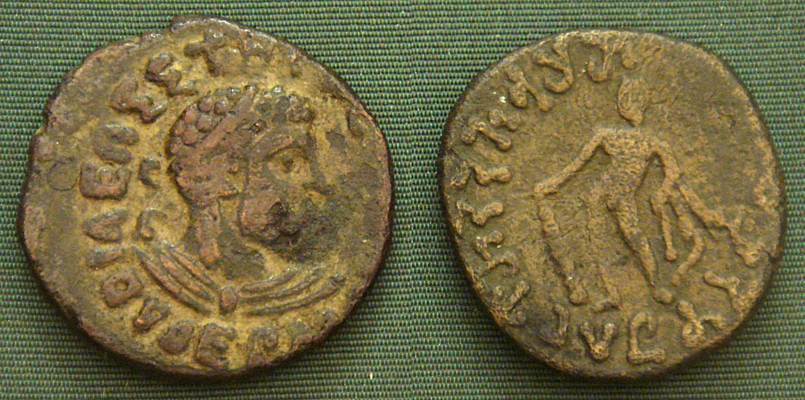 Coin of Kujula Kadphises, derived from a coin of the Indo-Greek king Hermaeus. British Museum. Personal photograph 2006.